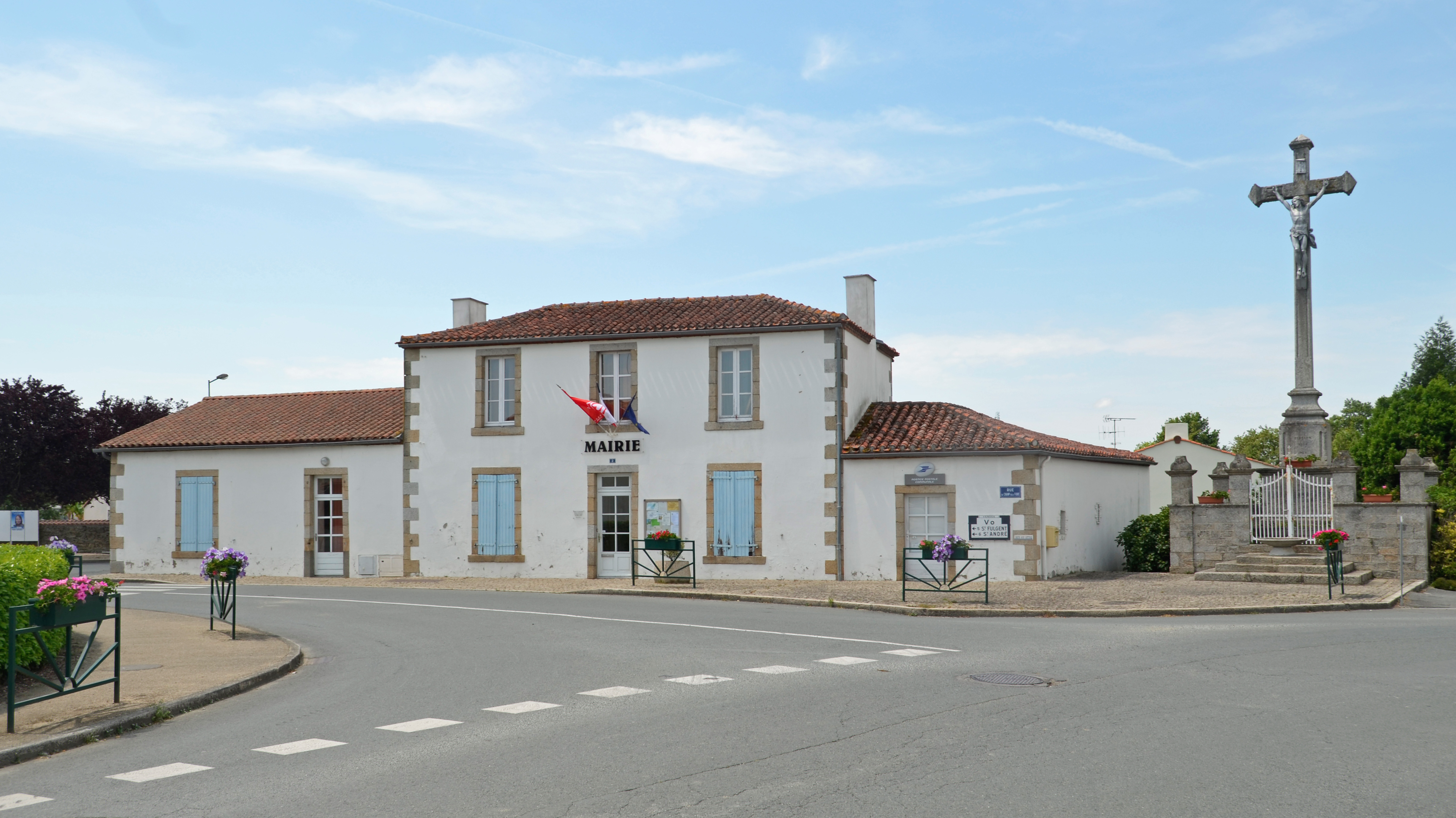 Vendrennes city hall and calvary - Vendée, France